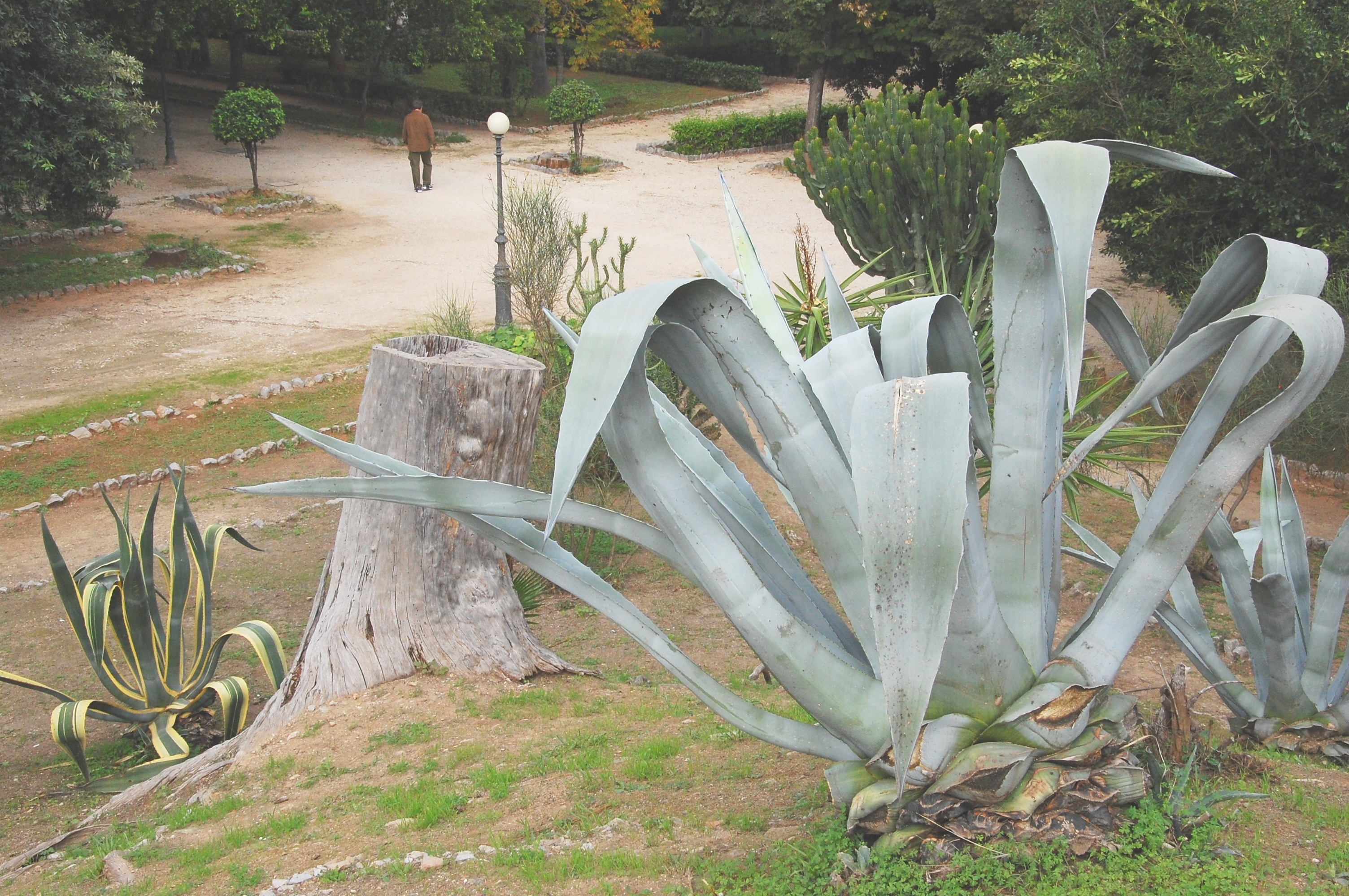 Agave americanaVilla Giulia (Palermo)